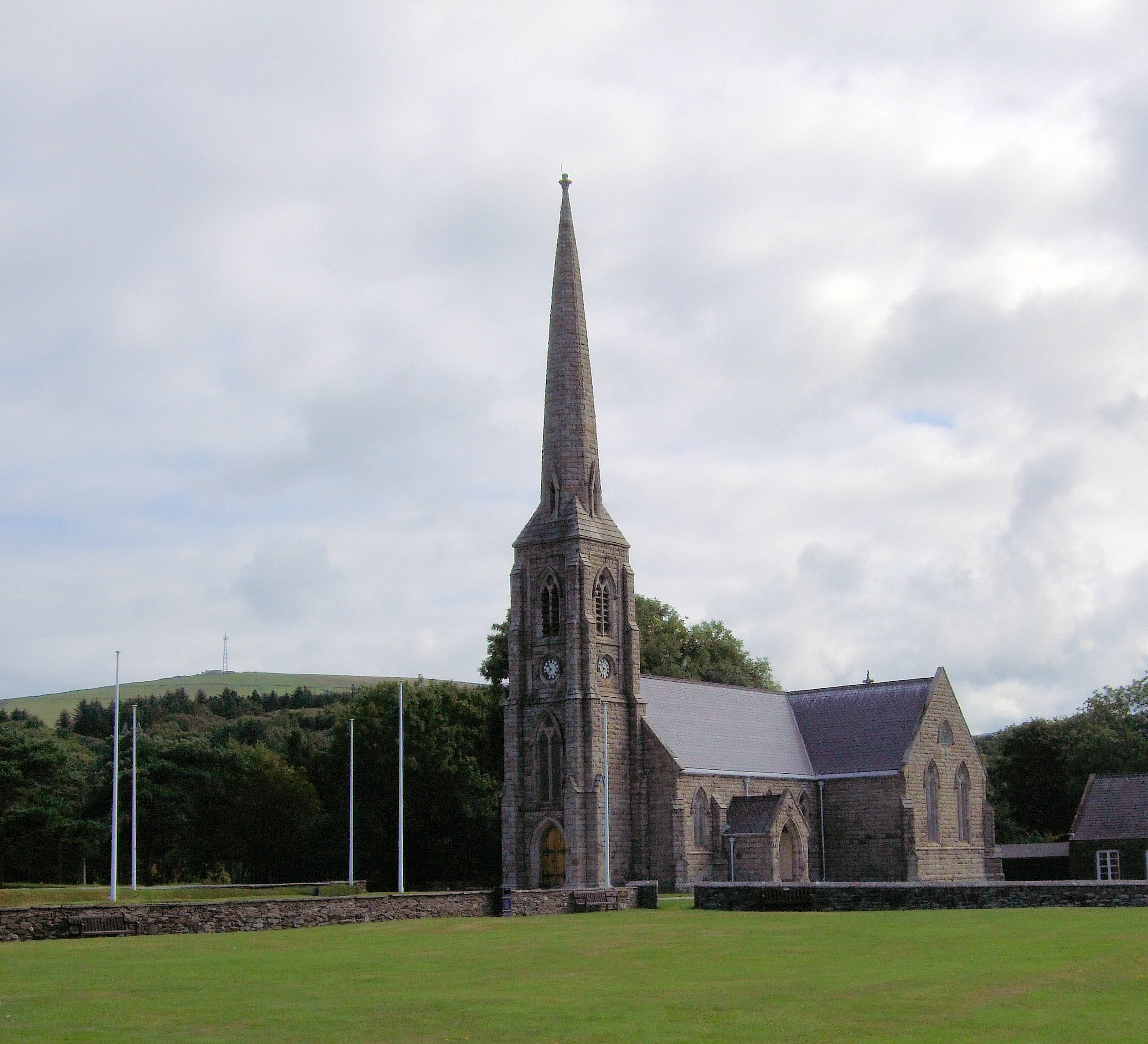 The church in the village is dedicated to St John and the village and parish are named for the church.